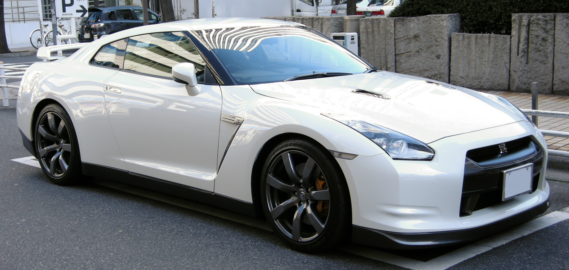 Nissan GT-R Premium Edition photographed in Tokyo